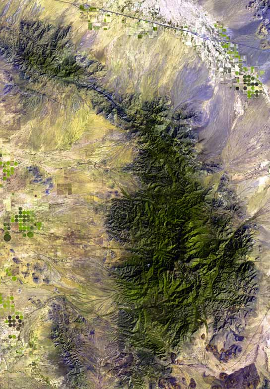 The raw satellite imagery shown in these images was obtain from NASA and/or the US Geological Survey. Post-processing and production by